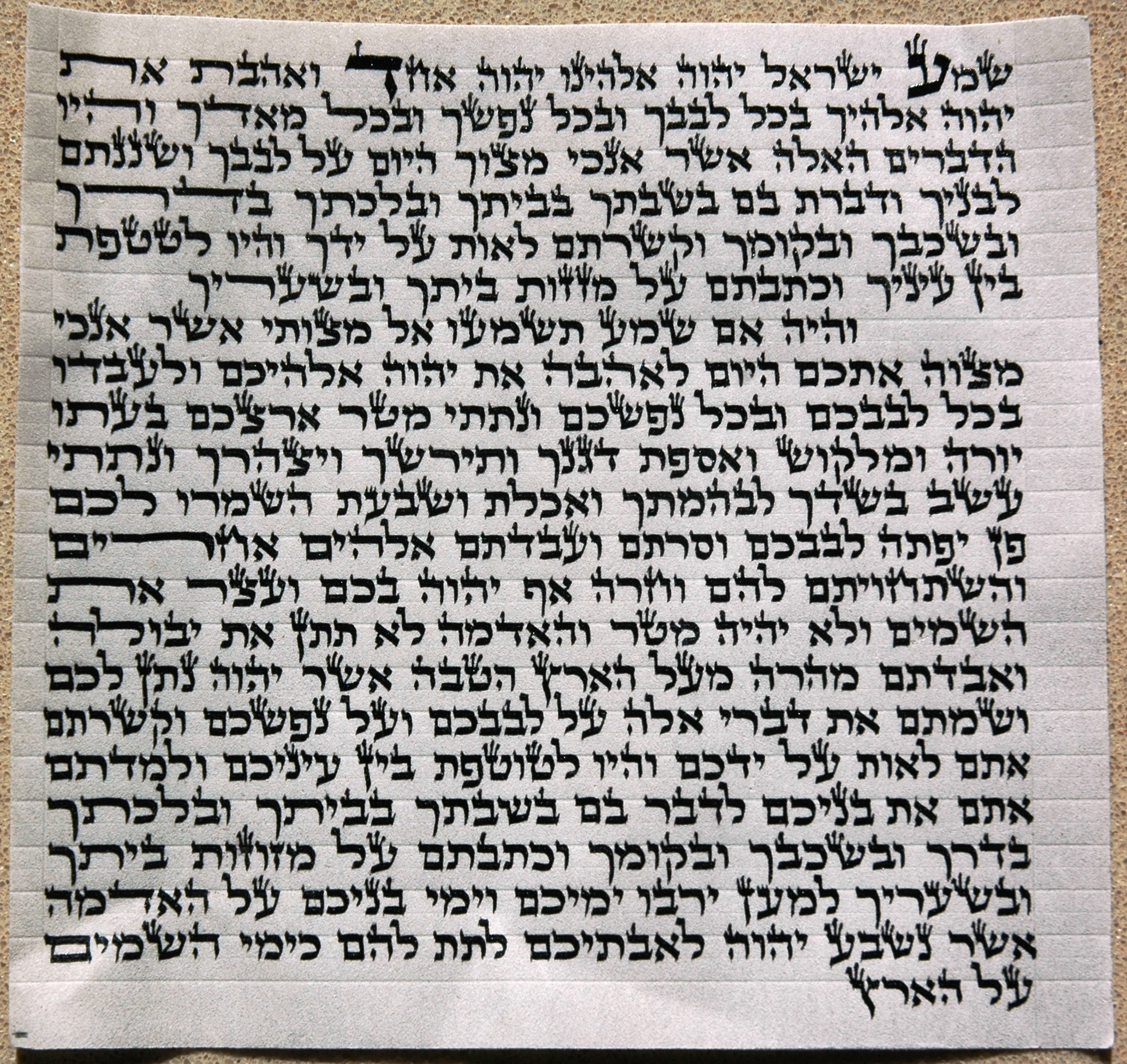 This is one of many beautiful Mezuzah photos of an Authentic Gallery taken all over Israel seen at If you are using this photo thank you for mentioning the source: "Mezuzah Scrolls" Thank you.